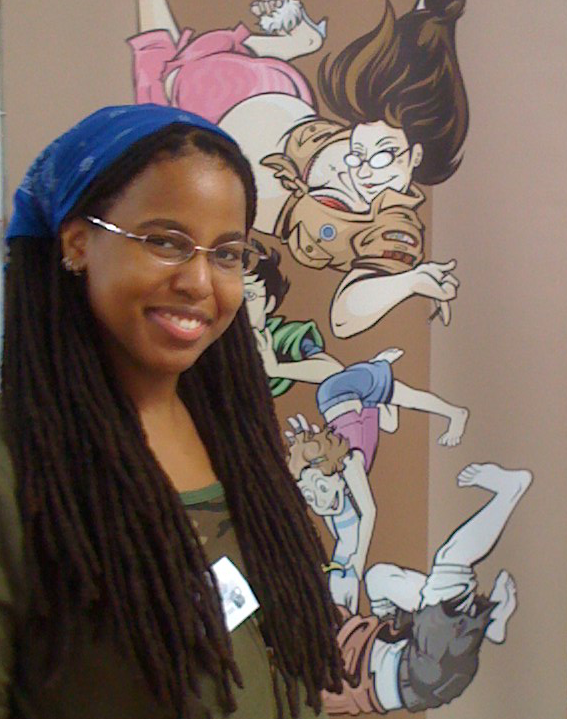 Charlie "Spike" Trotman and her Templar, Arizona characters at the 2008 MOCCA Festival in New York City, June 8, 2008